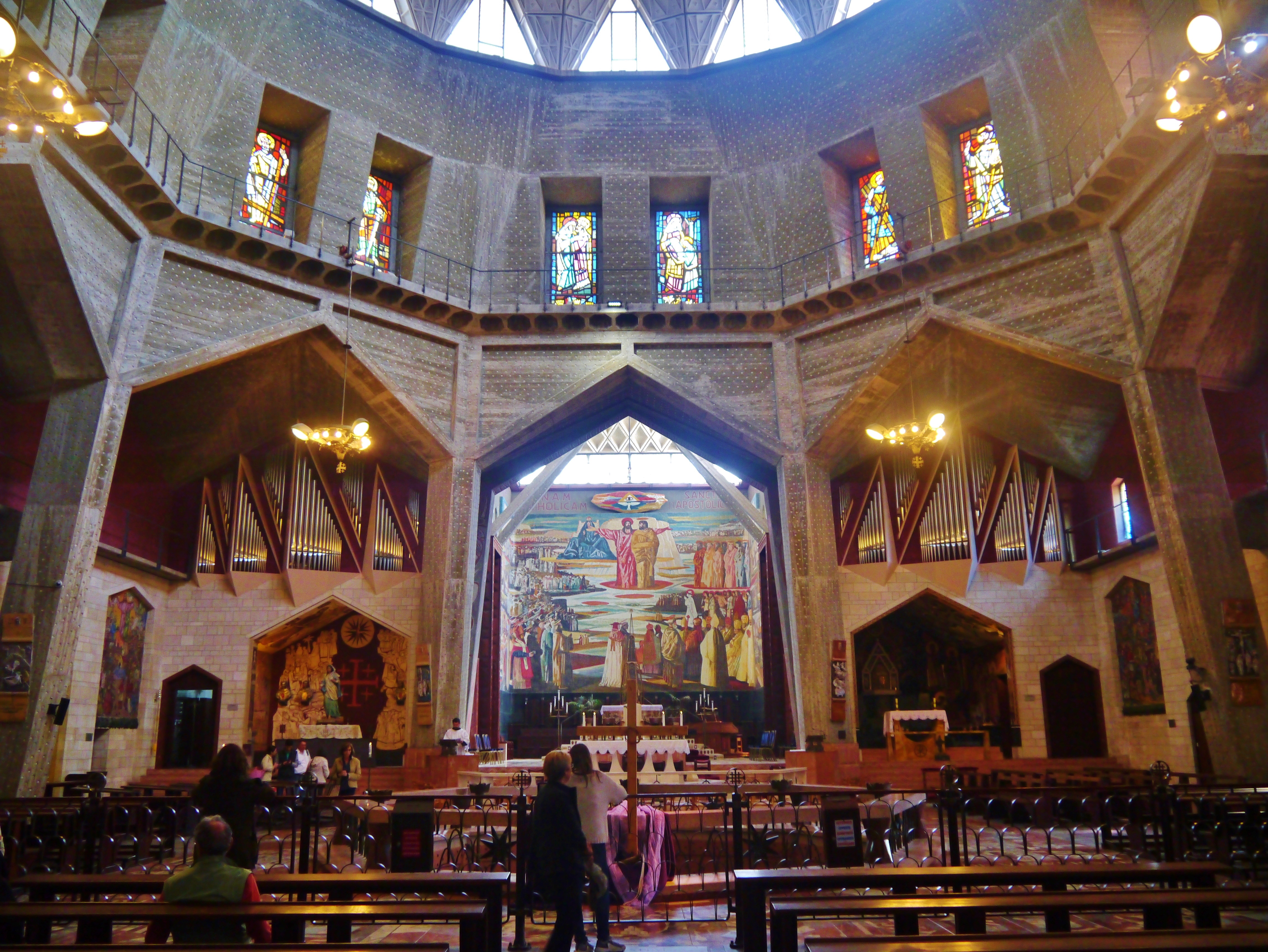 Upper Church of the Church of the Annunciation, Nazareth, Israel